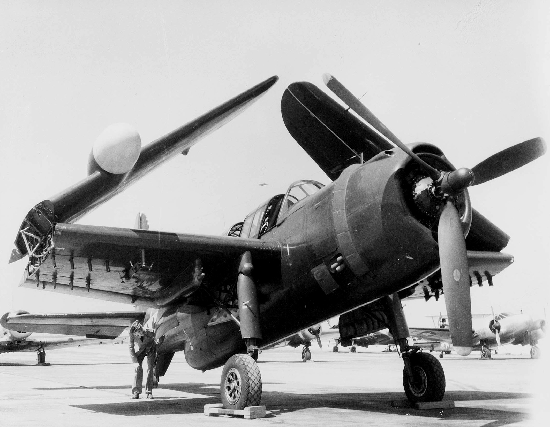 A U.S. Navy Consolidated TBY-2 Sea Wolf with folded wings. Note the APS-4 radar, zero-length rocket launchers, and the machine gun pods under the wings.